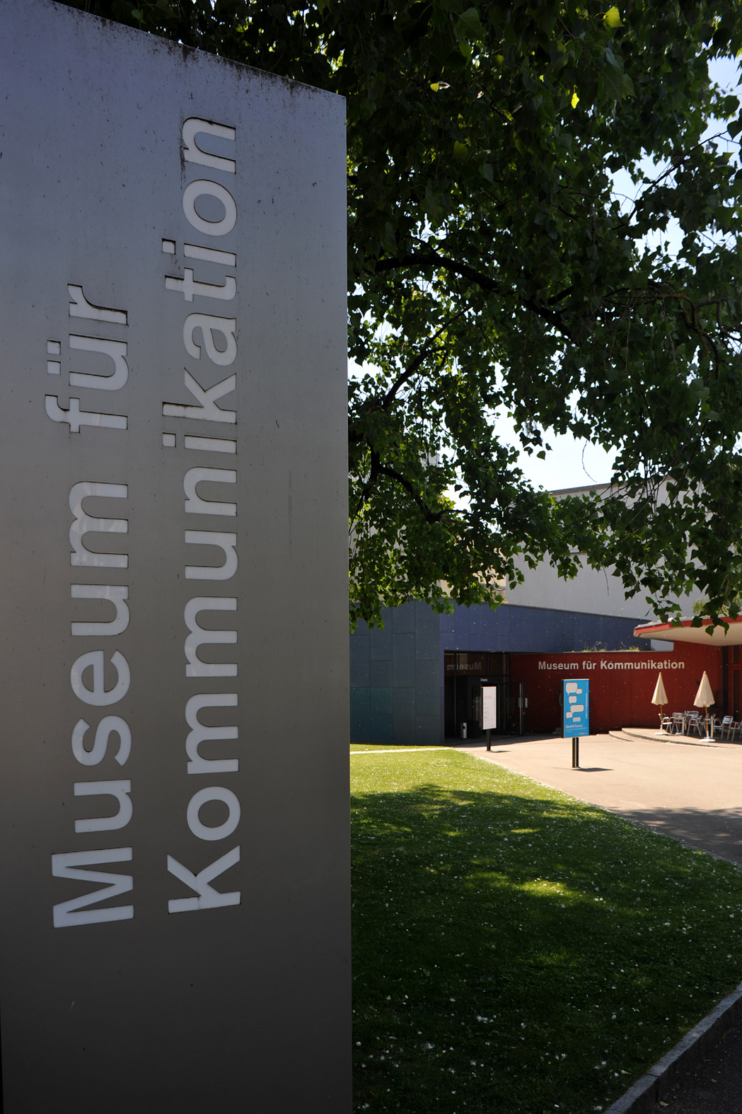 Museum for communication; Berne, Switzerland.